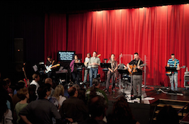 This is a picture from the Revive Us recording session.